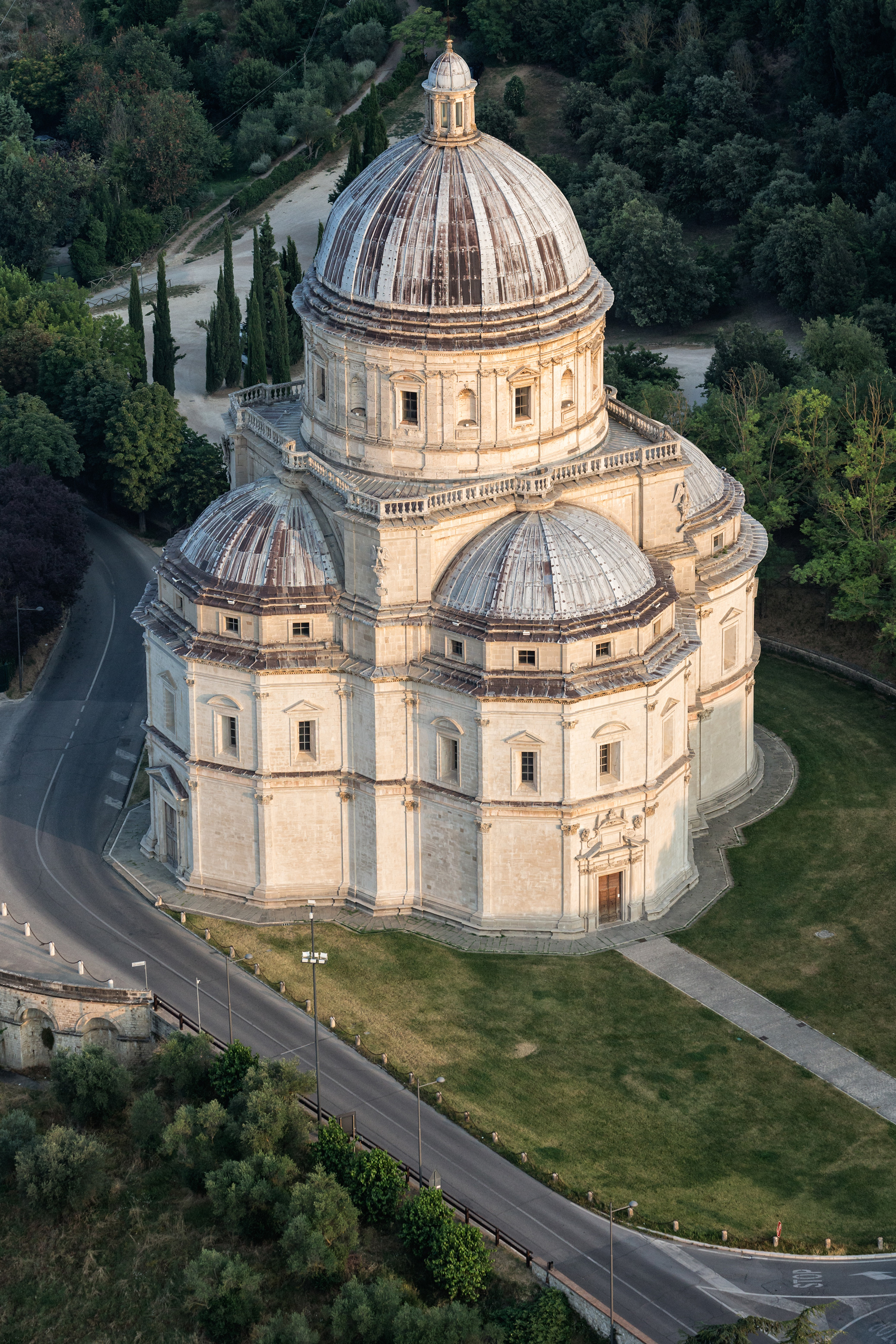 Ariel view of Tempio di Santa Maria della Consolazione This is a photo of a monument which is part of cultural heritage of Italy.